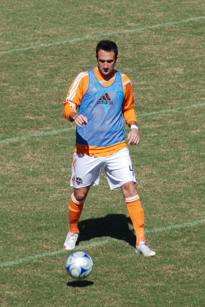 Practice (at home) during halftime against LA